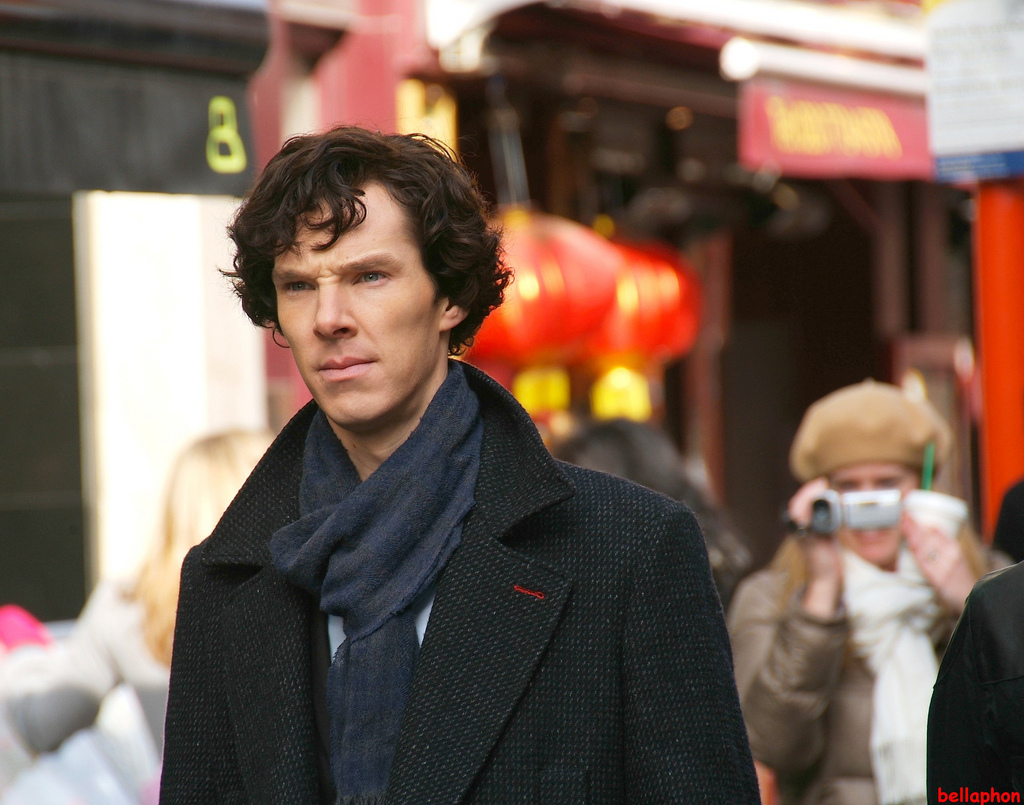 Chinatown, London. Benedict Cumberbatch during filming of Sherlock.